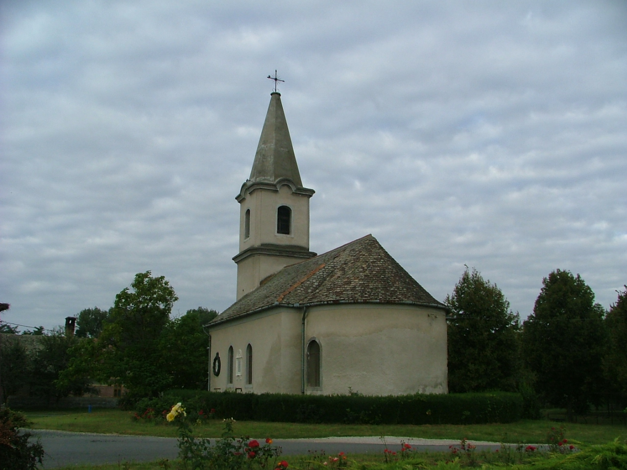 Lutheran church in Mérges